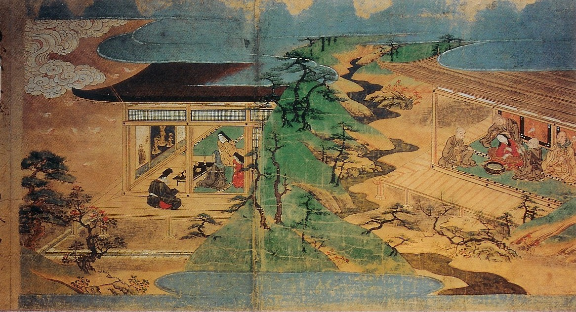 Picture scroll attribbuted to Tosa-School